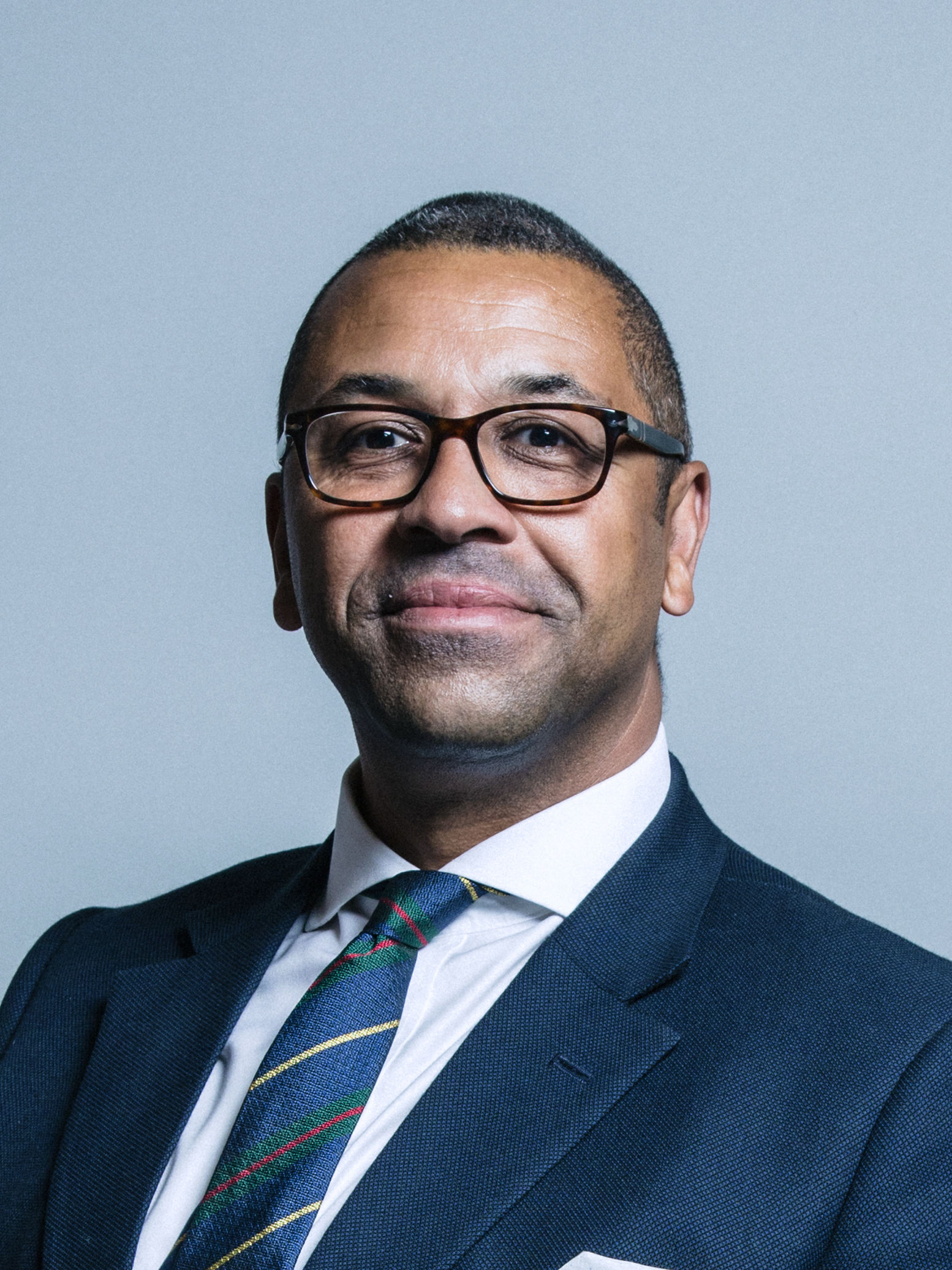 Official portrait of James Cleverly